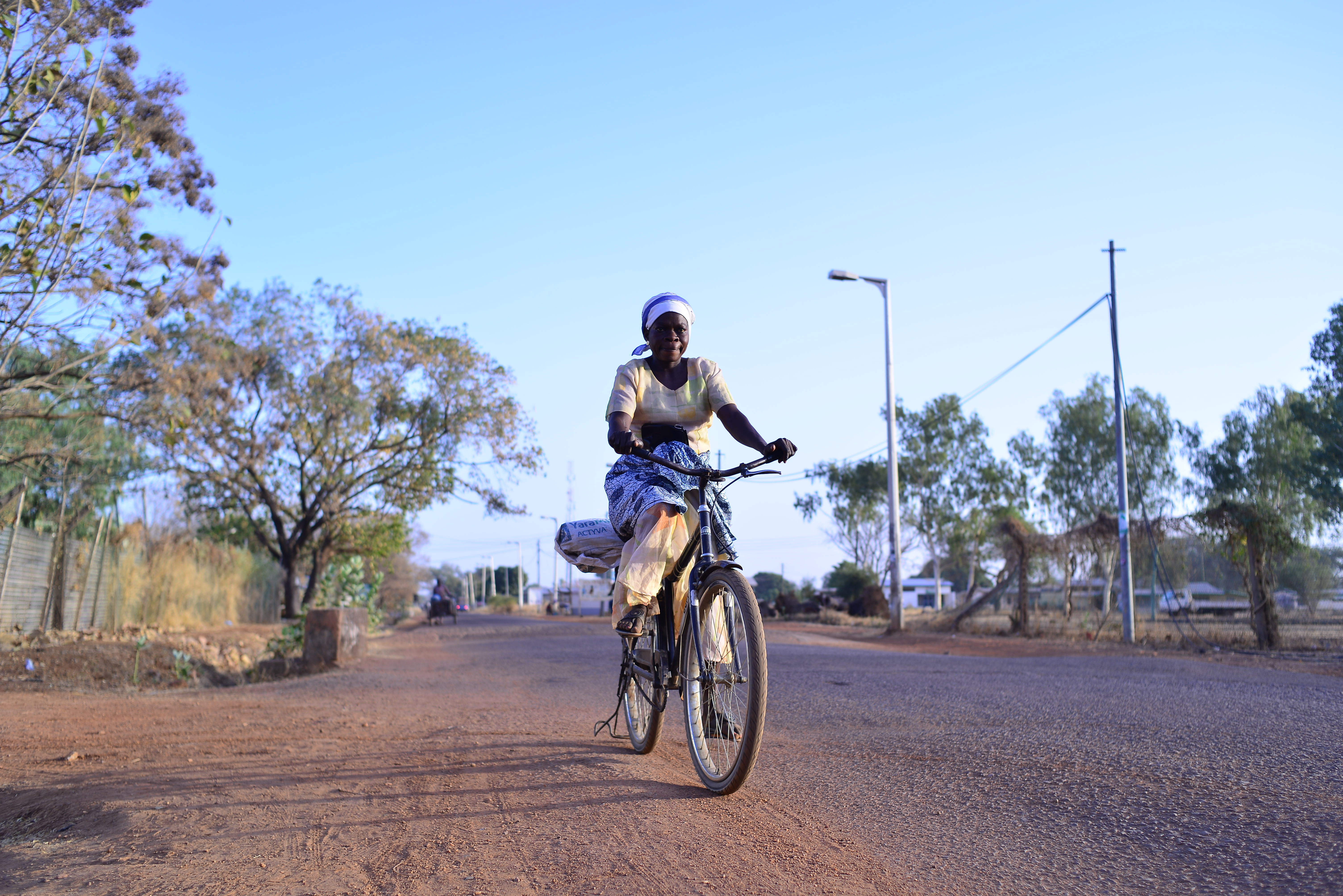 A woman on the bicycle to the market in Navrongo Ghana. It is the easiest means of transport in Navrongo it help transport people everywhere, it transport people to the farms, market, school, hospital and other places This is an image with the theme "Africa on the Move or Transport" from: Ghana